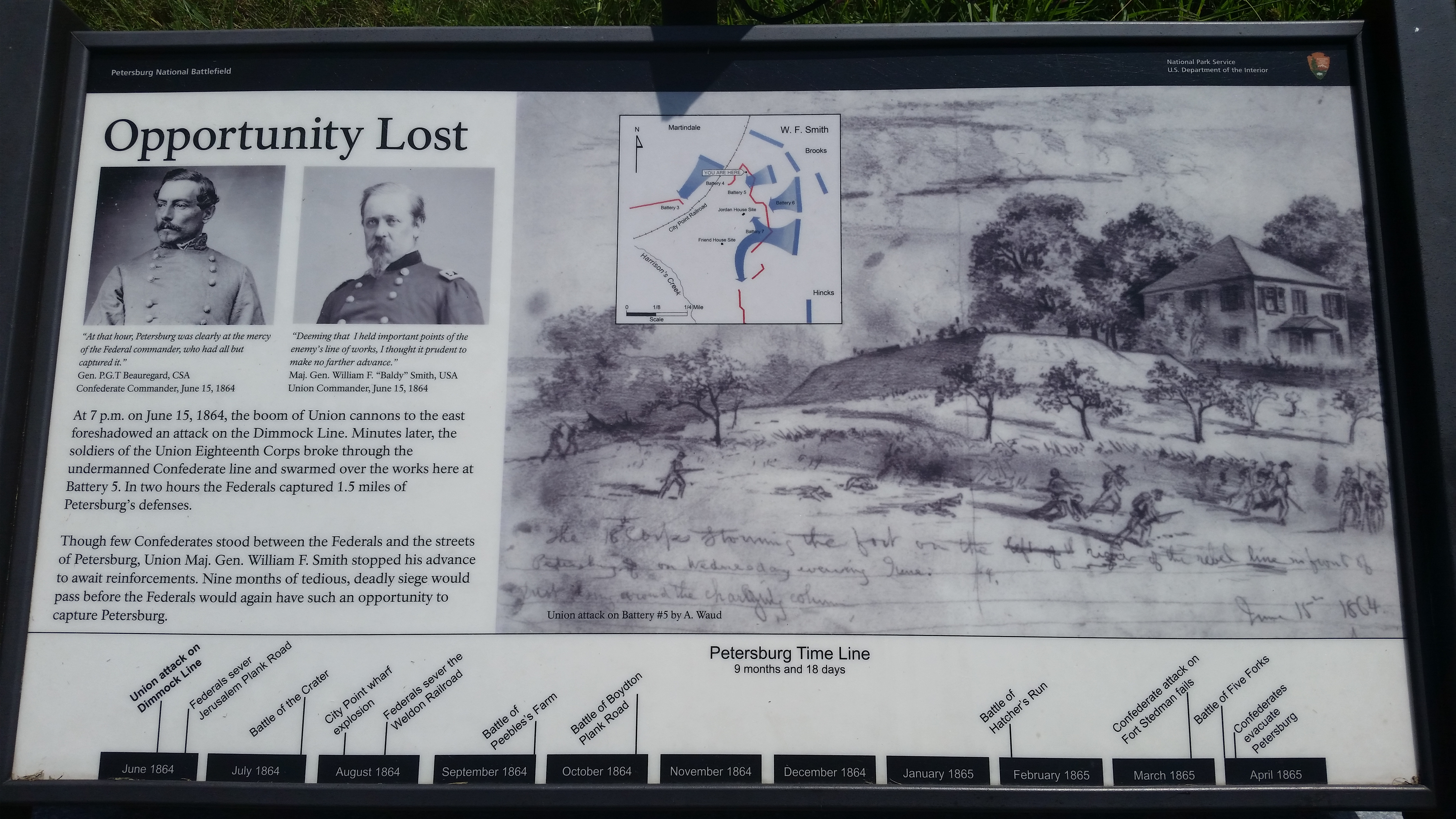 NPS Marker 1 for Second Battle of Petersburg